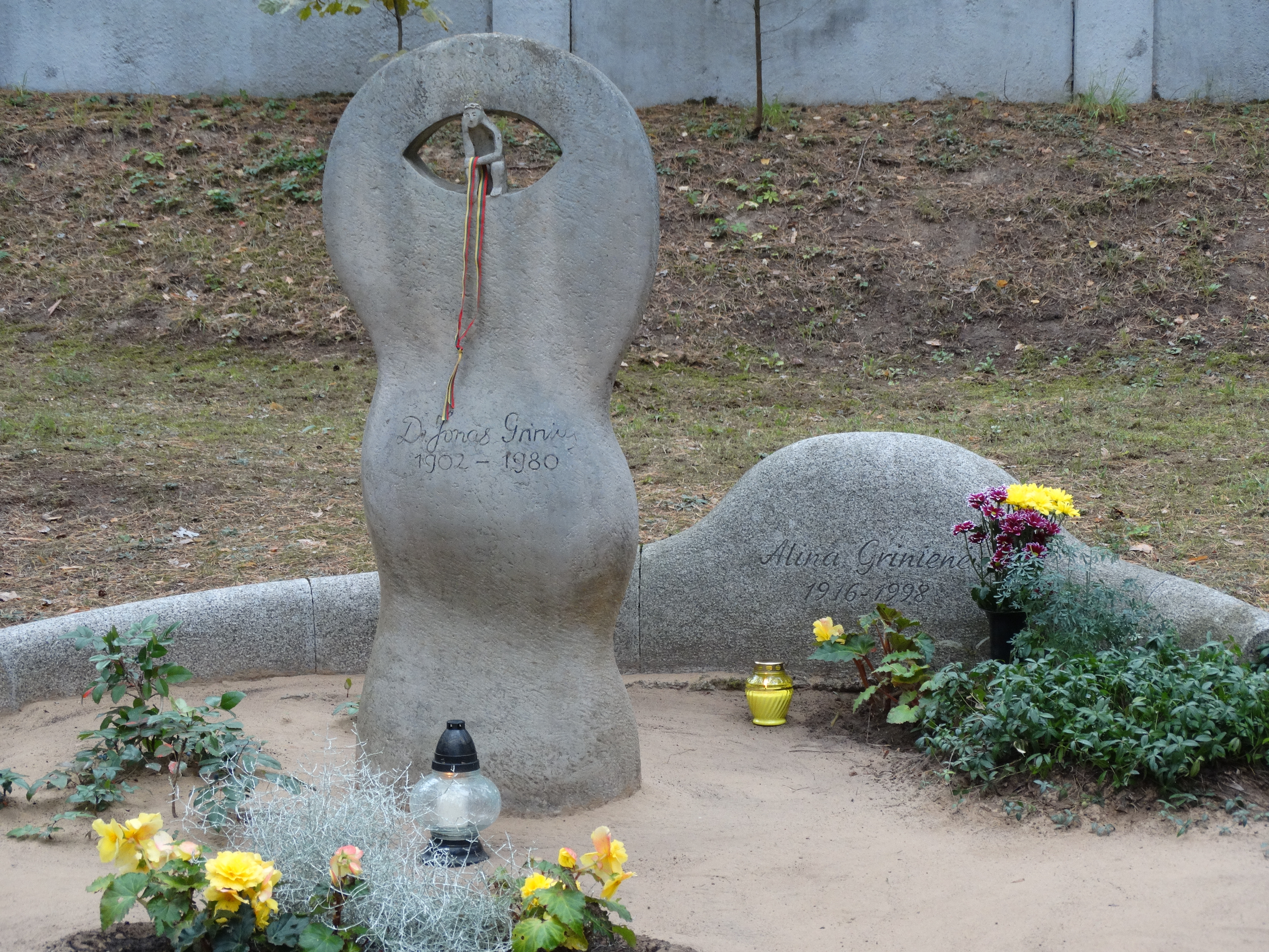 Tomb of Jonas Grinius, Petrašiūnai, Lithuania